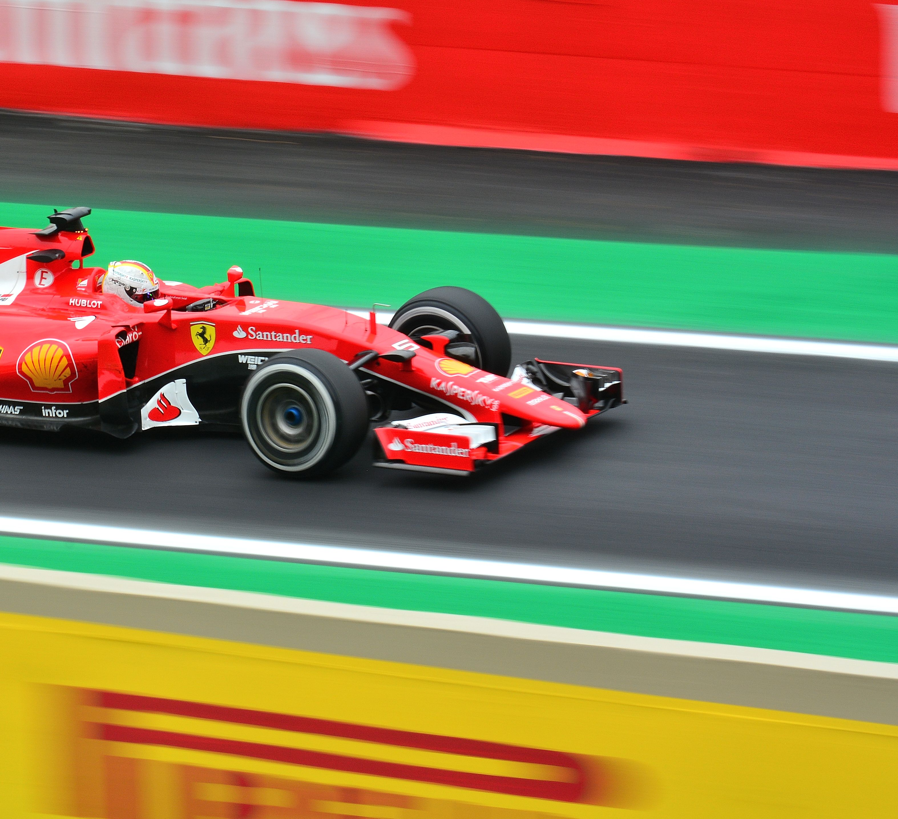 Sebastian Vettel at the 2015 Brazilian Grand Prix